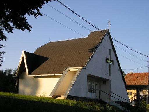 Church in Croatia